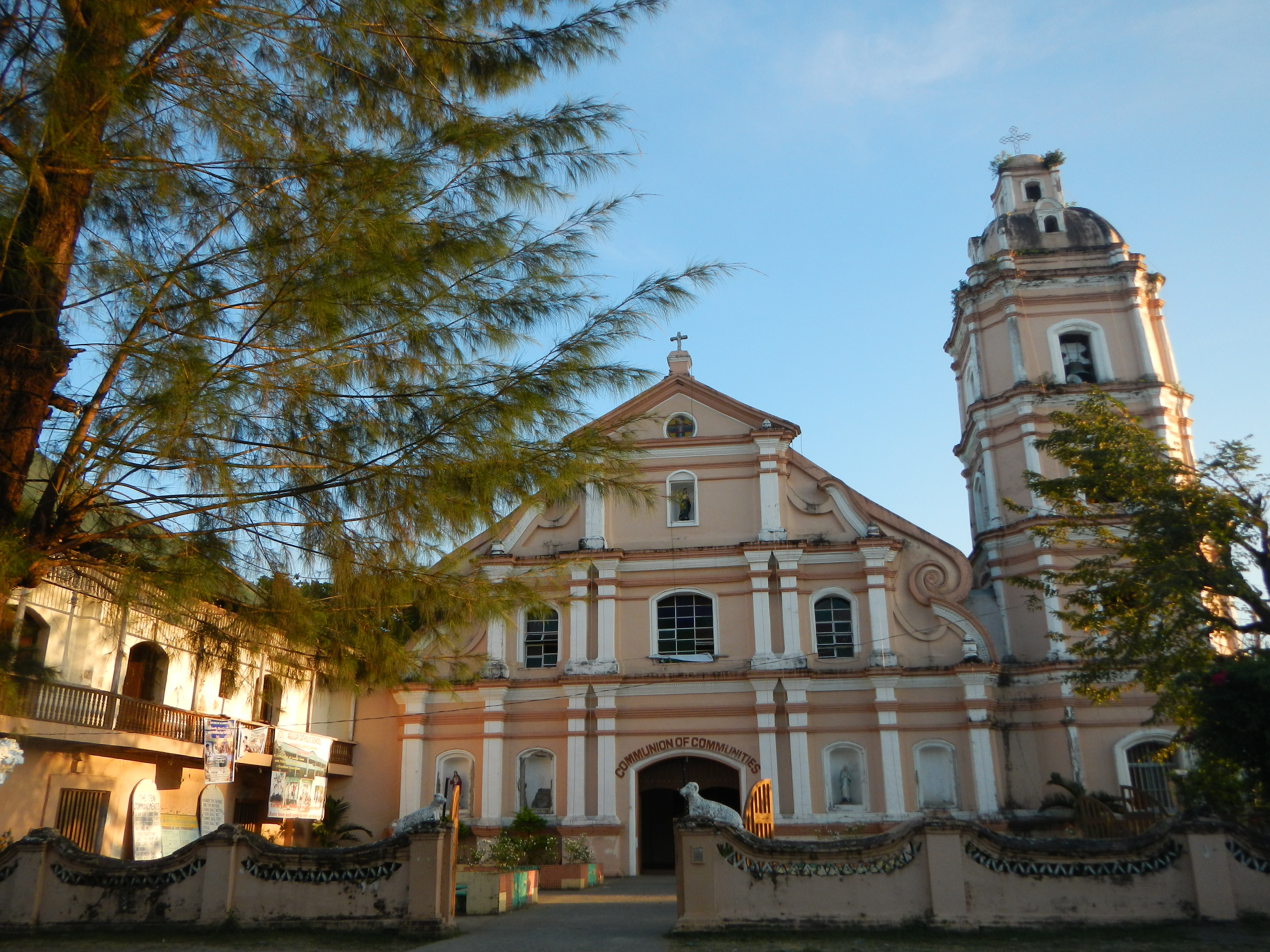 1810 St. Joseph The Patriarch Church, Roman Catholic Diocese of Alaminos[1][2] Vicariate I Episcopal Vicar: Msgr. Luello N. Palapac Aguilar (1810), 2415 Pangasinan Population: 33,213 Titular: St. Joseph the Patriarch, March 19 Co Pastors: Fr. Windell de Vera Fr. Johnny Tagalicud Fr. Bayani Liguid Aguilar, Pangasinan[3]